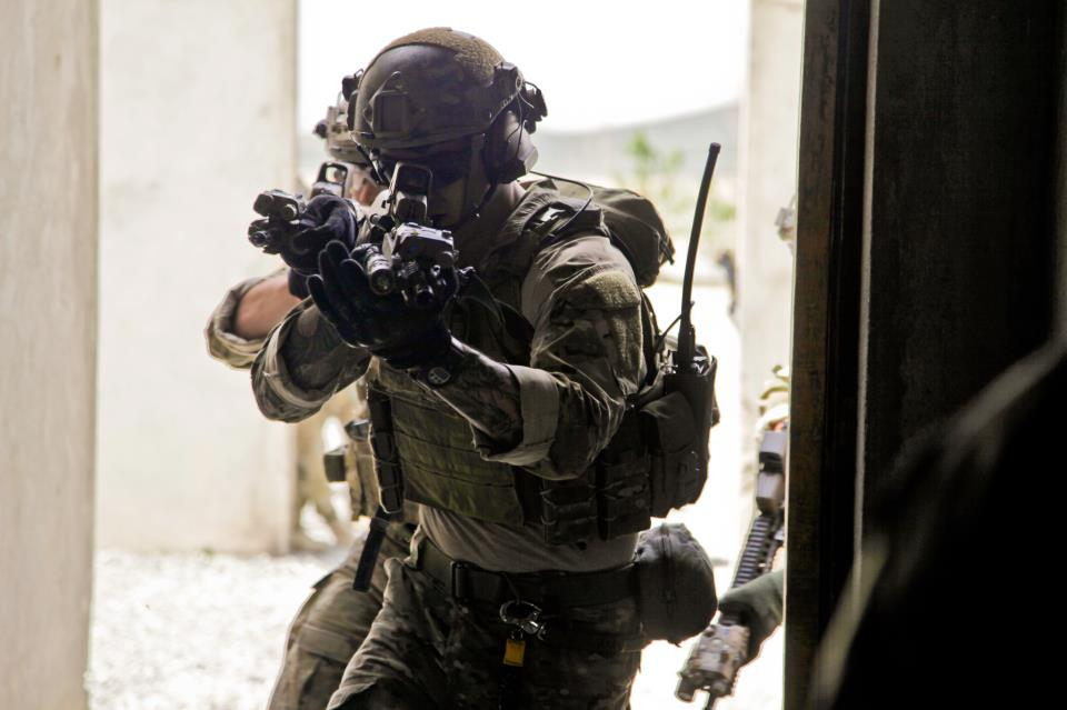 Rangers from 1st Battalion, 75th Ranger Regiment, conduct a full mission rehearsal in Afghanistan in preparation for a night combat operation April 22, 2013. (U.S. Army photo by Spc. Ryan S. Debooy)